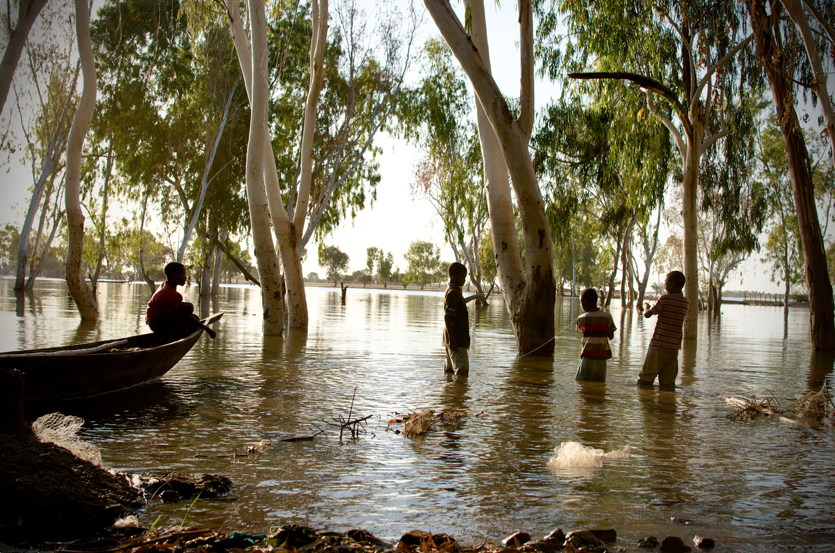 These kids in a fisher man village did not just fish for fun. Every member of the family is helping to get food on the table. Teriya Bugu, Mali This is an image of "African people at work" from Mali